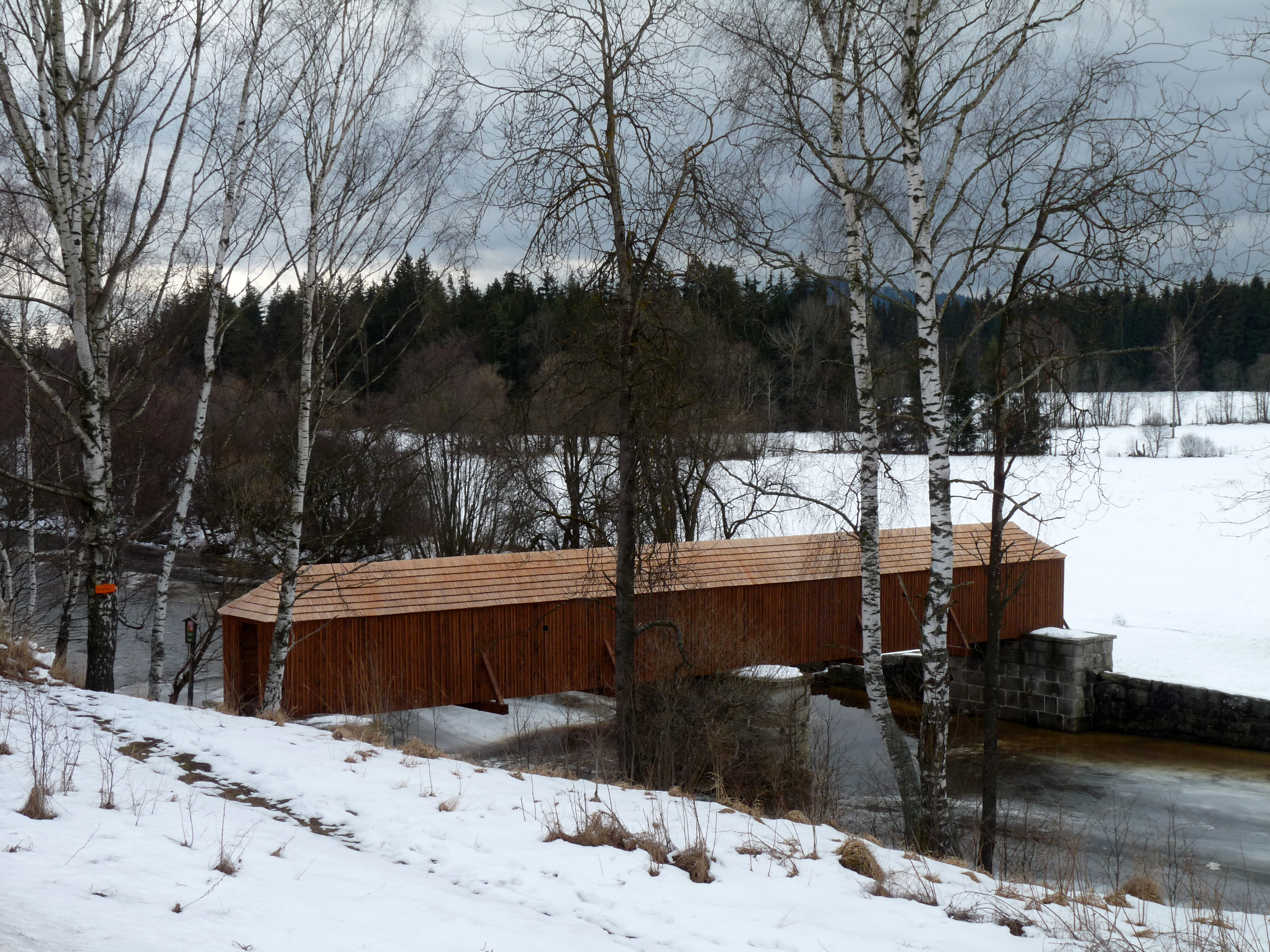 Bridge over the Teplá Vltava River in the village of Lenora, Prachatice District, South Bohemian Region, Czech Republic.